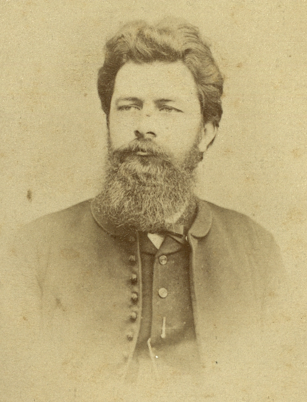 Josip Poklukar (1837-1891), slovene politician.